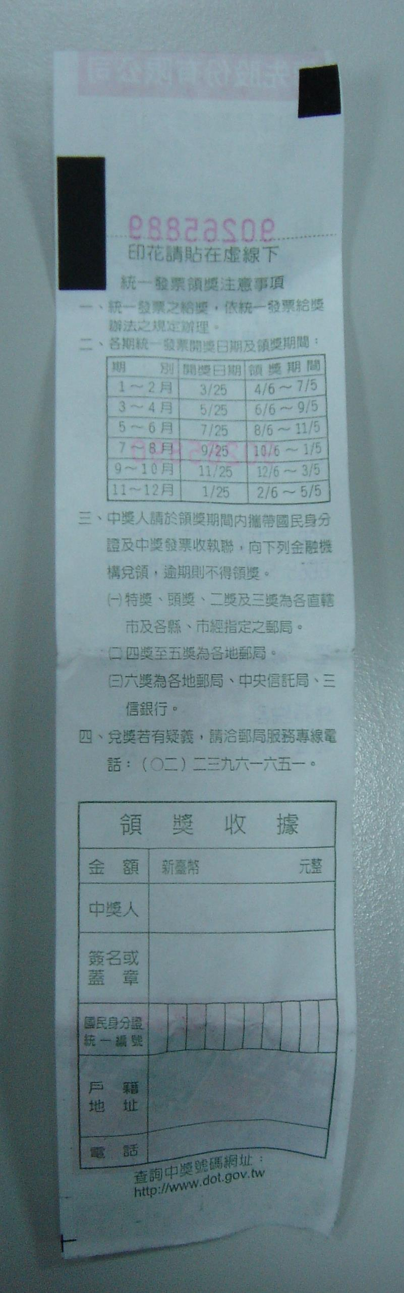 Invoice used in Taiwan, the back side. Photoed by Hsiang-Tai Chien.